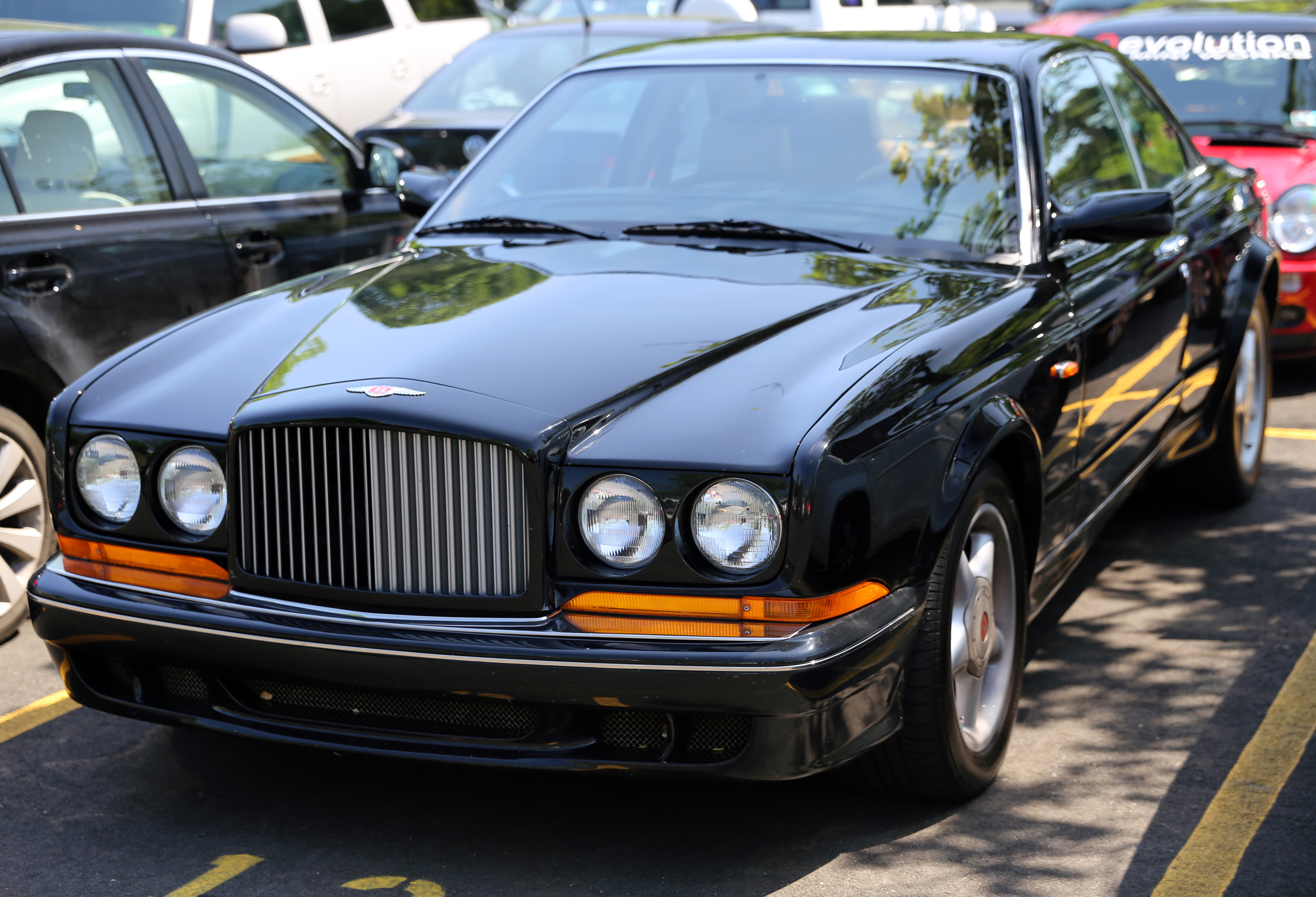 1997 Bentley Continental T, 400hp engine with twin airbags and OBD-II. In the parking lot of the 2013 Greenwich Concours d'Elegance.